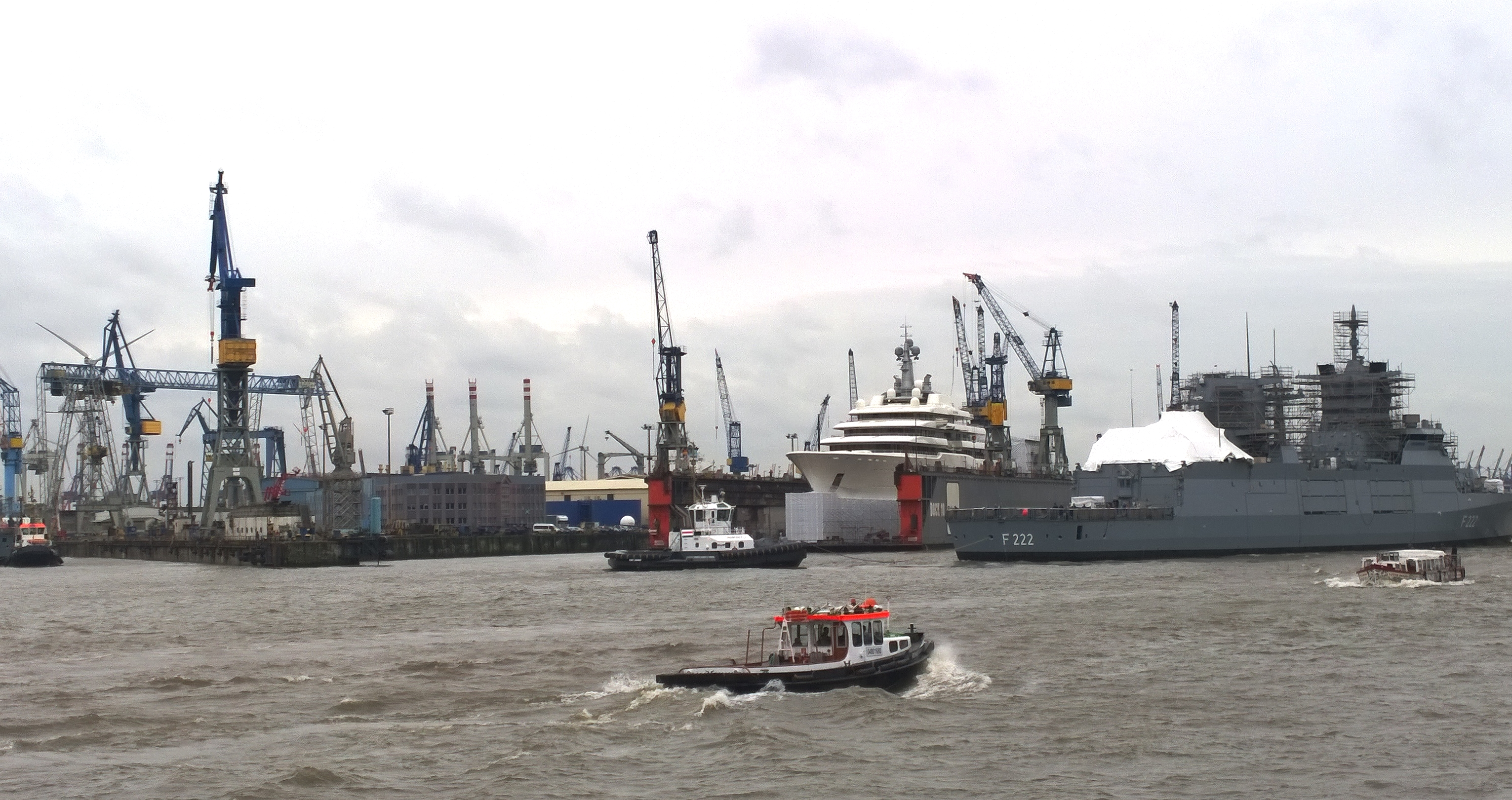 The stern tug pulls the Fregate F222 toward Dock 17 of the Blohm & Voss shipyard